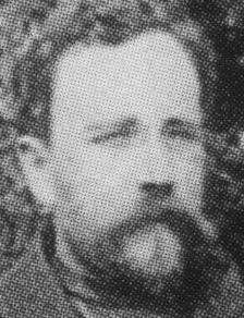 Lev Kamenev, 1915.